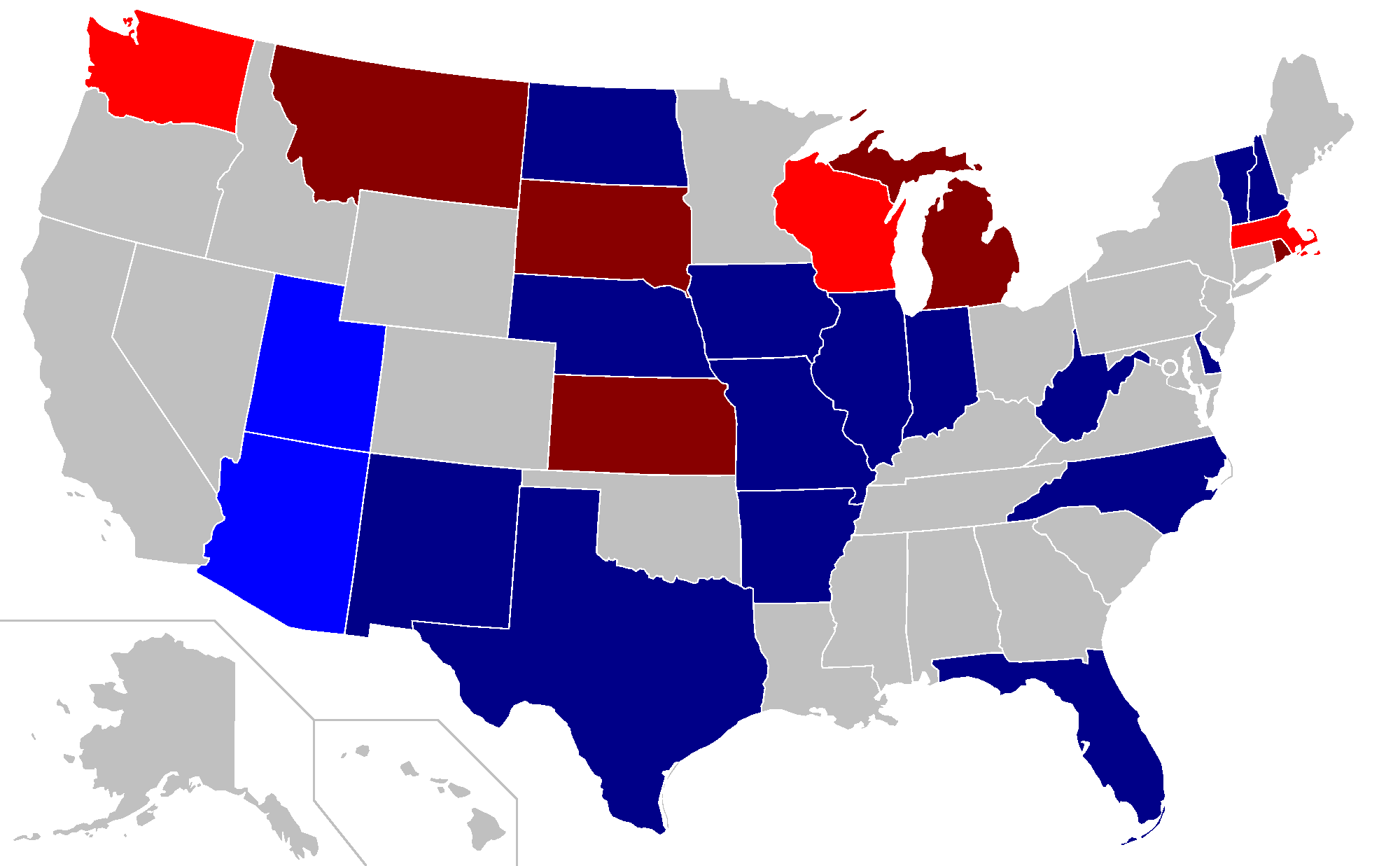 A map showing the results of the 1964 United States Gubernatorial elections